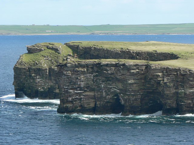 Grey Head This is the northern tip of the Calf of Eday, taken from Red Head on Eday. Beyond is Sanday.